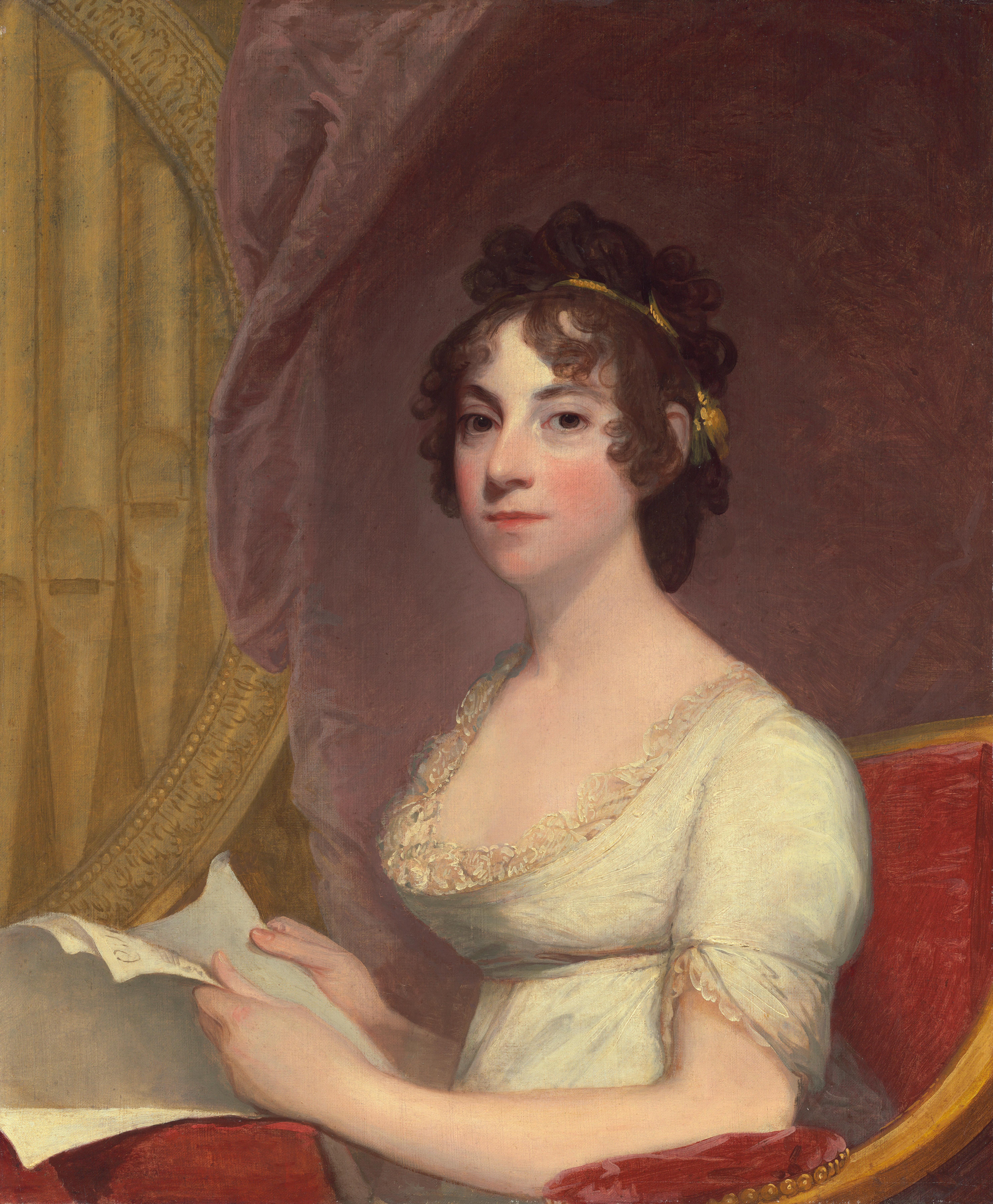 Mrs. Thornton (?-1865). Dr. Wm Thornton was the 1st Architect of the Capitol in Washington DC. Mrs. Thornton was a well known socialite and was involved in a strange case involving a slave threatening her with an axe. Painting exhibited in 1922 in the Union League in NYC.